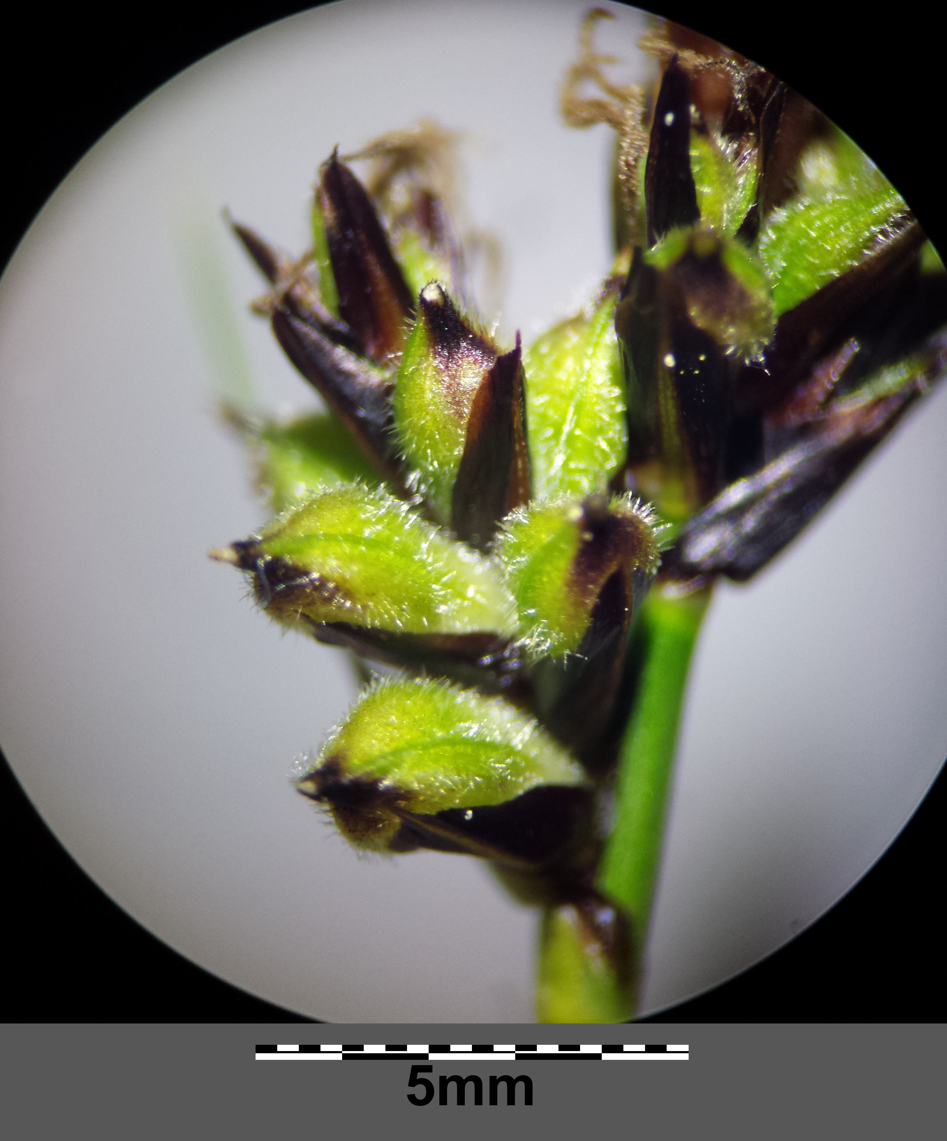 ♀ spike Taxonym: Carex montana ss Fischer et al. EfÖLS 2008 ISBN 978-3-85474-187-9 Location: Rohrwald, district Korneuburg, Lower Austria - ca. 320 m a.s.l. Habitat: Carpinion betuli